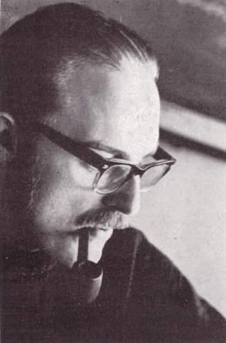 Photograph of the Finnish composer Kari Rydman (1936–).